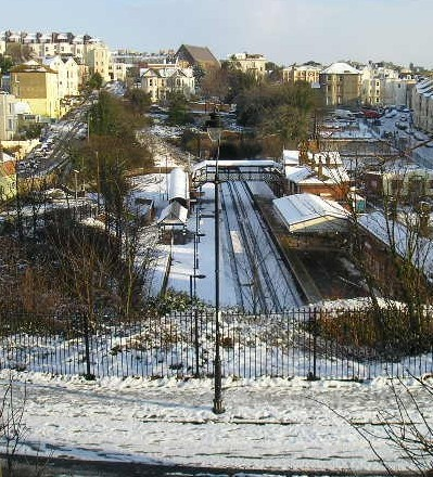 taken by john humphries in Winter 2005-6